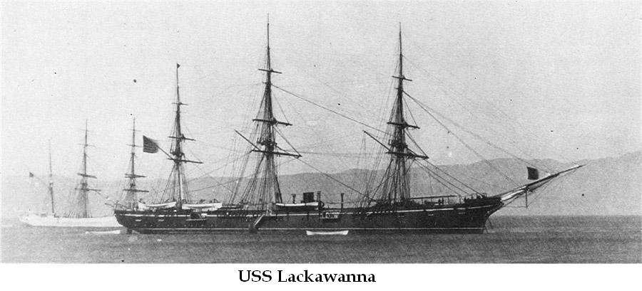 USS Lackawanna donde se realizo la Conferencia de Arica